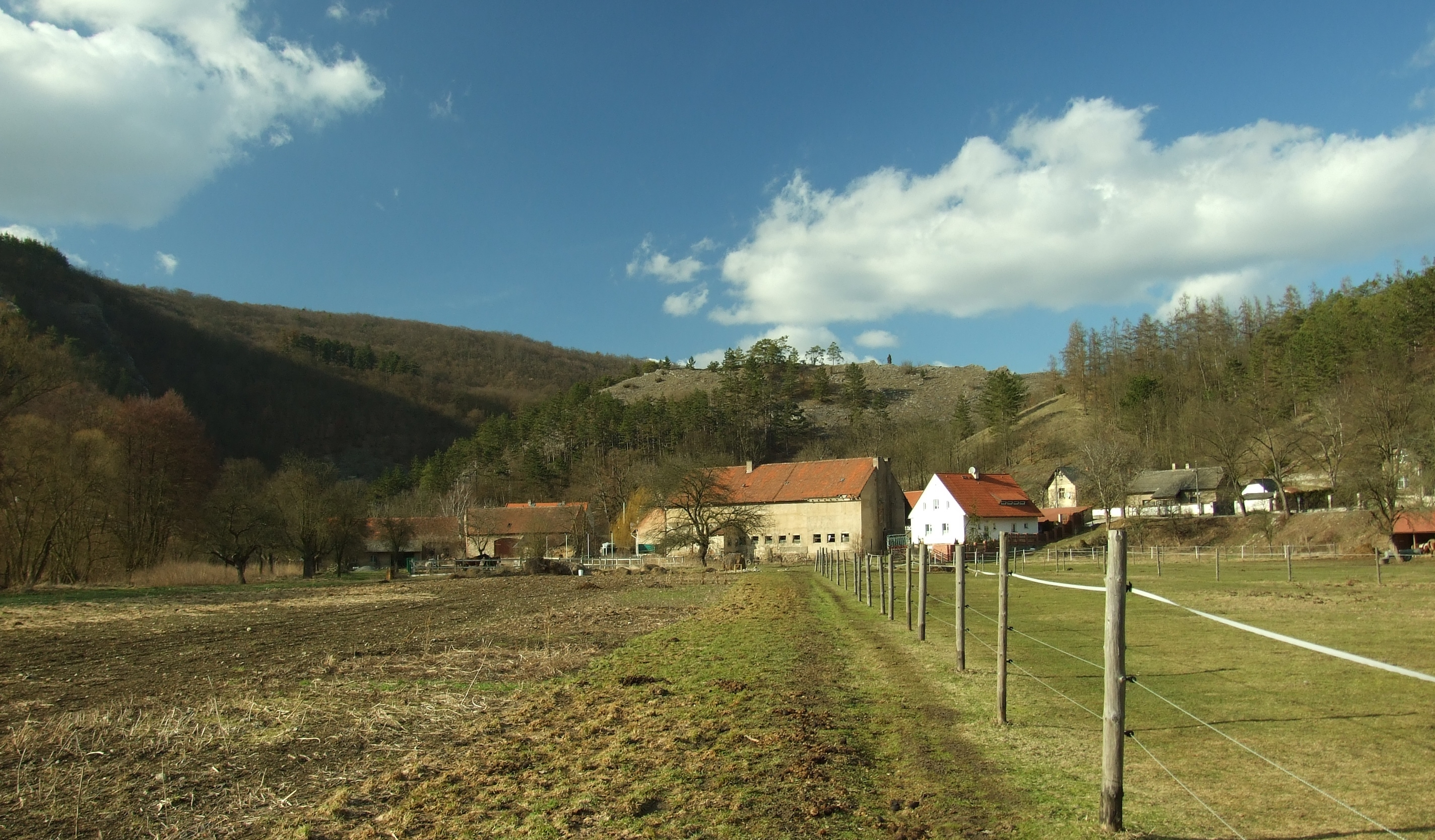 Hostim village, part of the town of Beroun, Central Bohemian Region, CZ